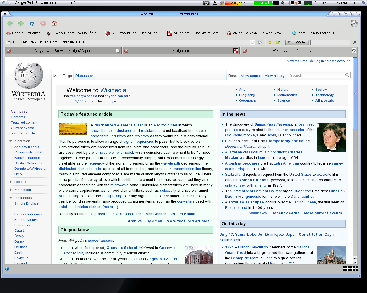 A screenshot of the Origyn Web Browser(OWB) 1.9 running on Morph OS rendering Wikipedia's homepage.